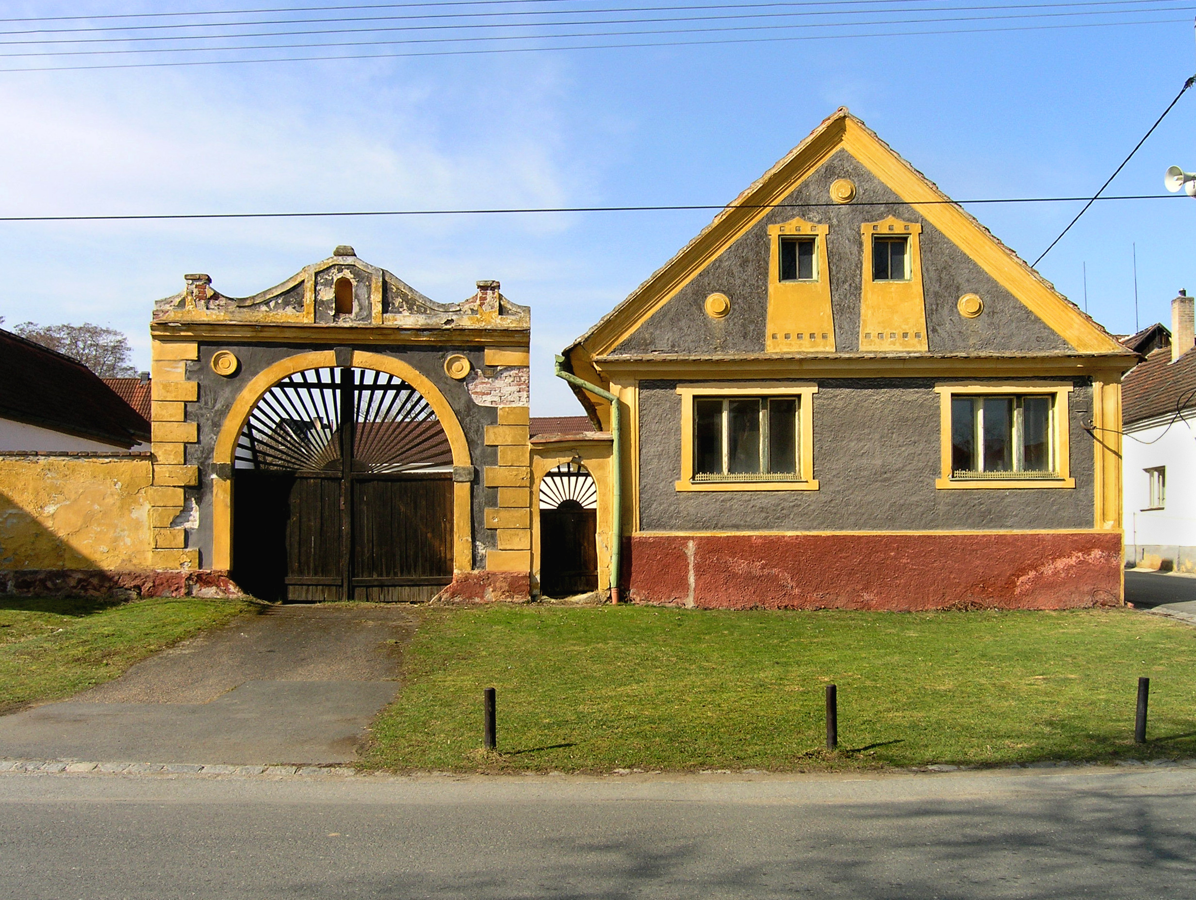 Old farm in Ejpovice village, Czech Republic